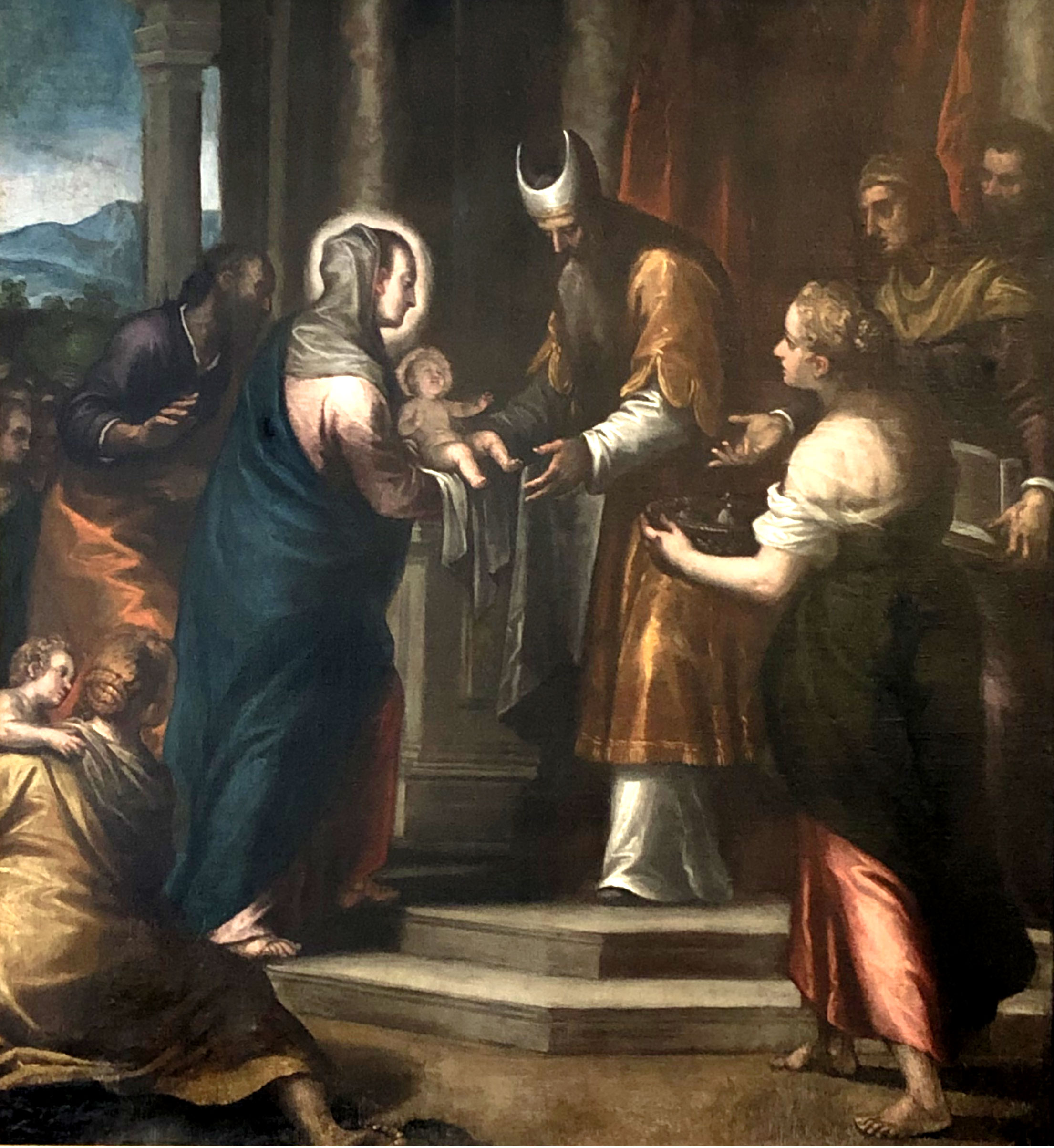 Candlemas by Alessandro Maganza (1556-1632)